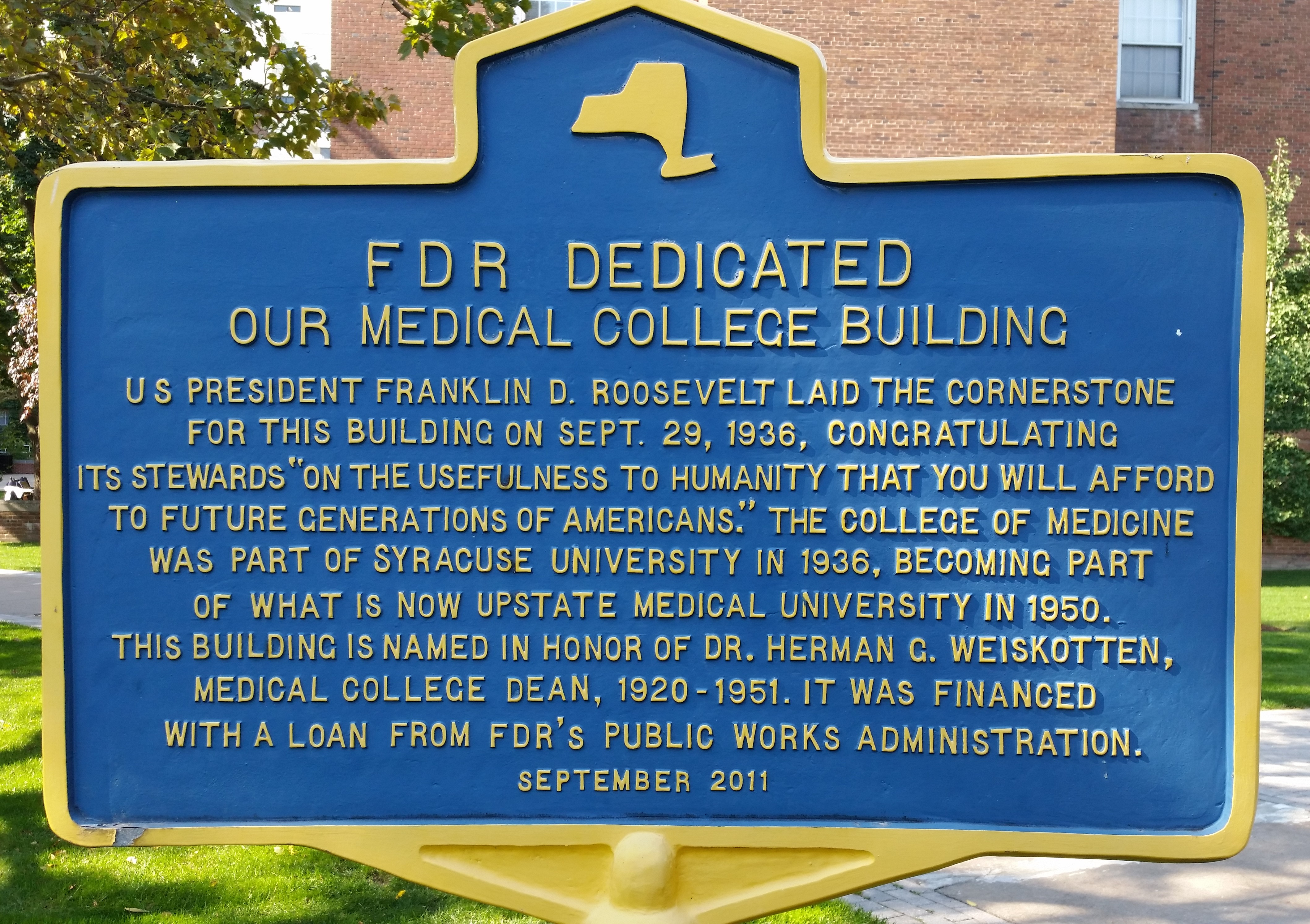 New York State historical marker at Upstate Medical University, Syracuse, NY